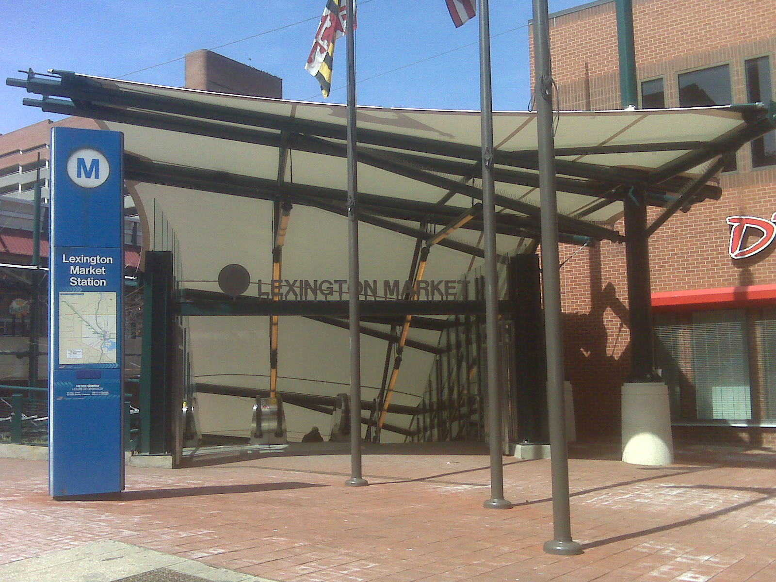 The entrance to the MTA Maryland Metro Subway's Lexington Market Station.